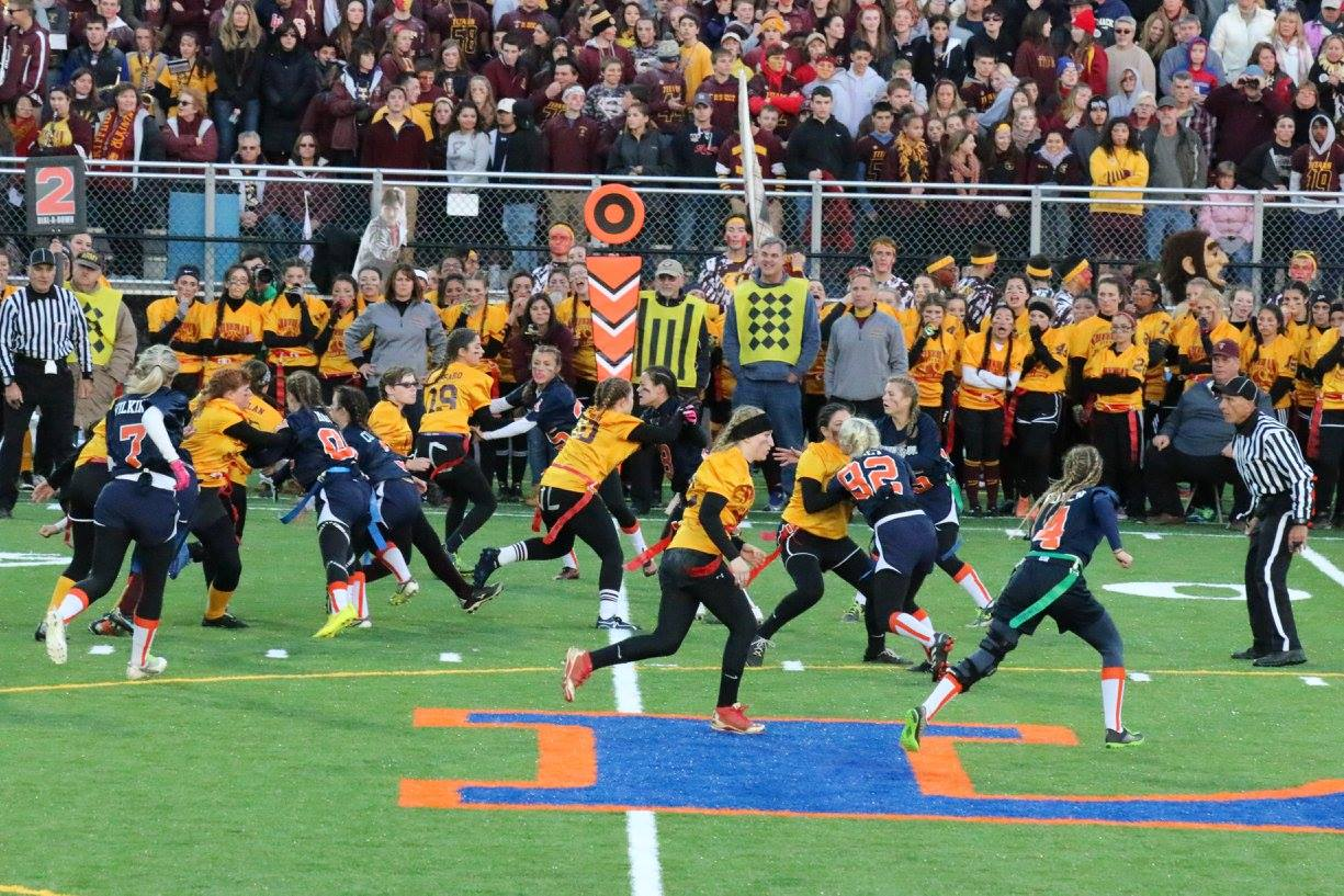 Lyman Hall and Sheehan High Schools face off in annual Samaha Bowl